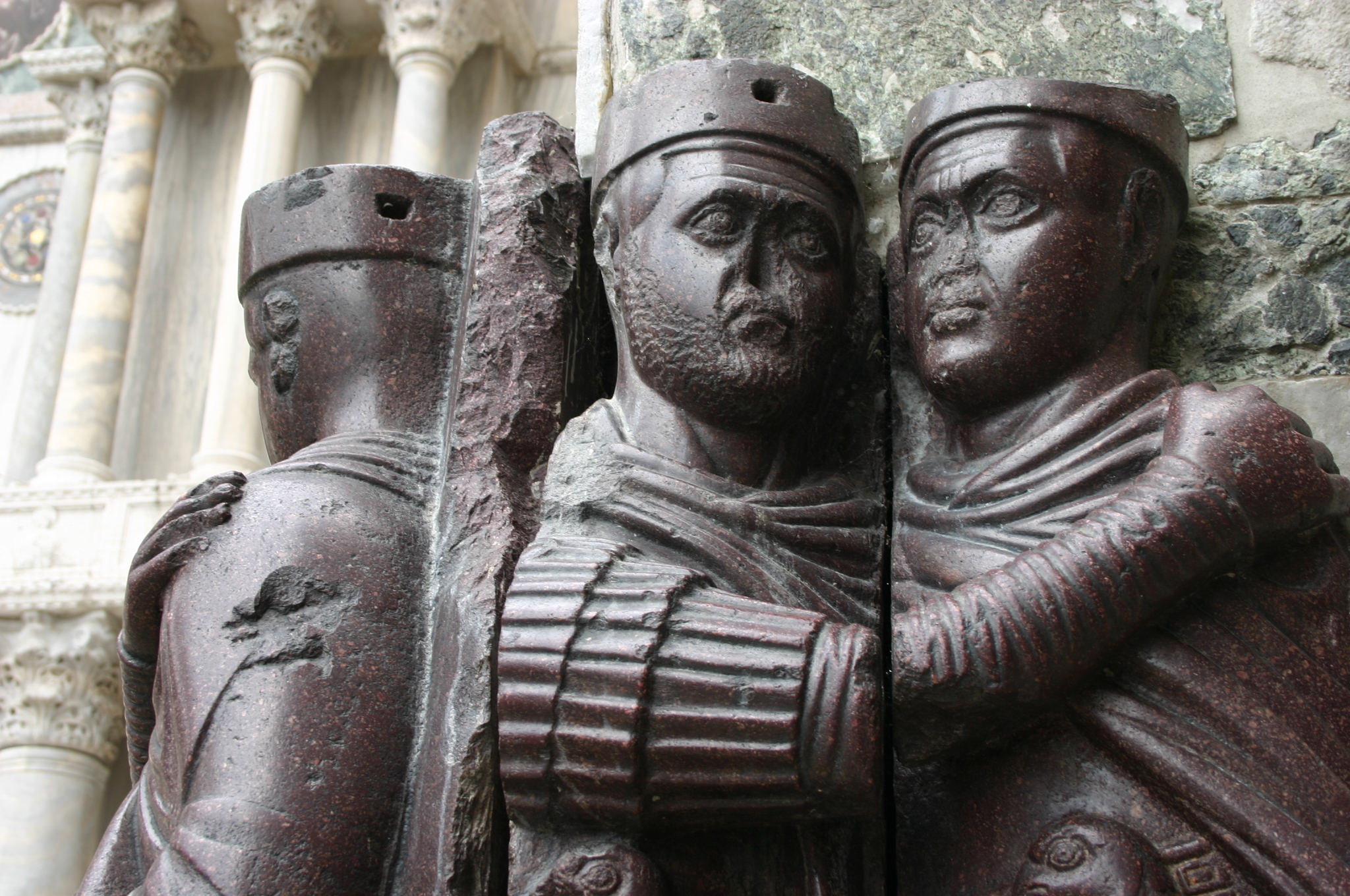 The tetrarchs (from the Greek words for "Four rules") were the four co-rulers that governed the Roman Empire as long as Diocletian's reform lasted. Here they were portraied embracing, in sign of harmony, in a porphyry sculpture dating from the 4th century, produced in Asia Minor, today on a corner of Saint Mark's in Venice, next to the "Porta della Carta". Picture by Giovanni Dall'Orto, August 8, 2007.